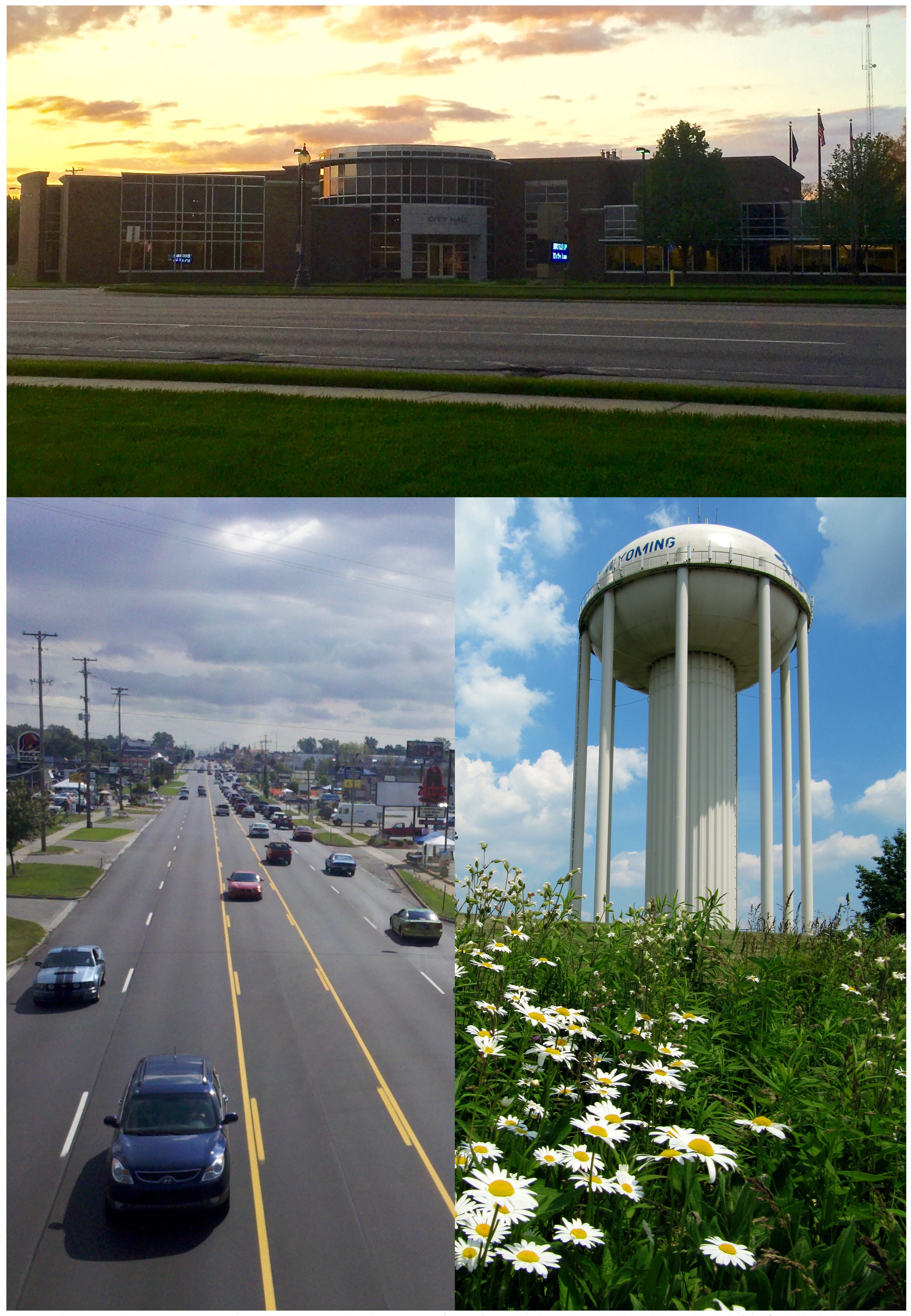 Collage of Wyoming, Michigan.